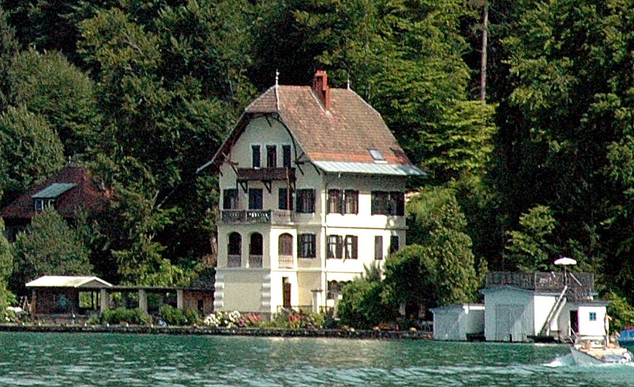 Villa Siegel (architectural design from 1900 by Friedrich Theuer) on Wörthersee-Süduferstrasse #23 in Sekirn, municipality Maria Wörth, district Klagenfurt Land, Carinthia, Austria, EU